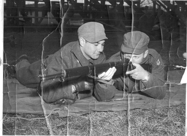 Whitey Ford (right) Shooting a rifle in training for the military.